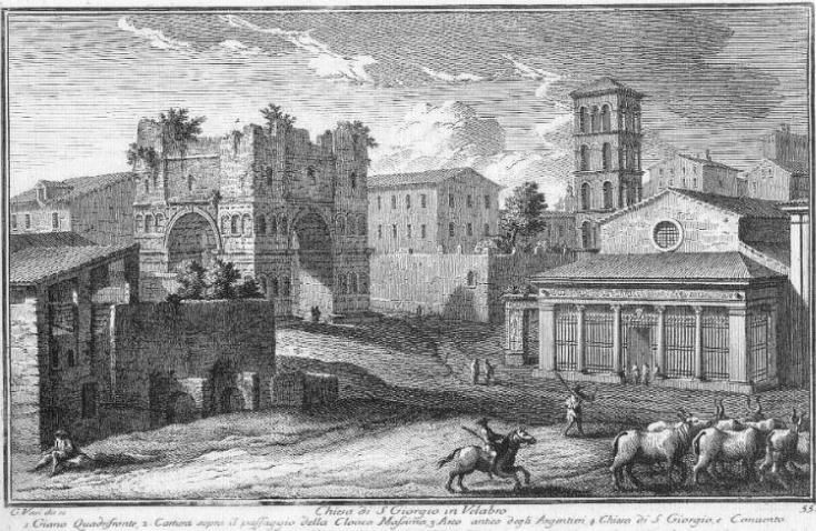 1) Arco di Giano Quadrifronte; 2) Paper mill above Cloaca Massima; 3) Arco degli Argentieri; 4) S. Giorgio al Velabro.